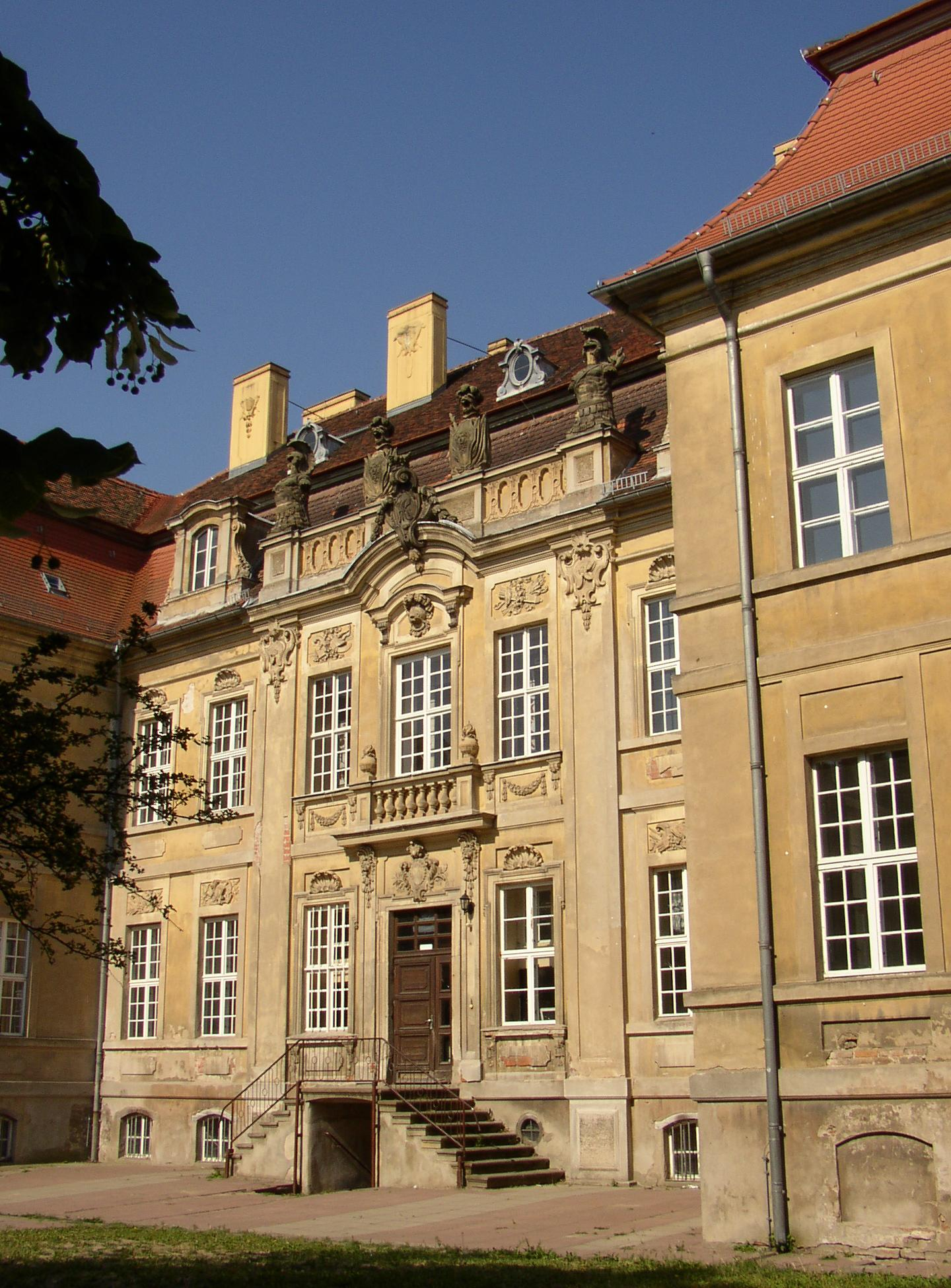 Palace in Roskow in Brandenburg, Germany